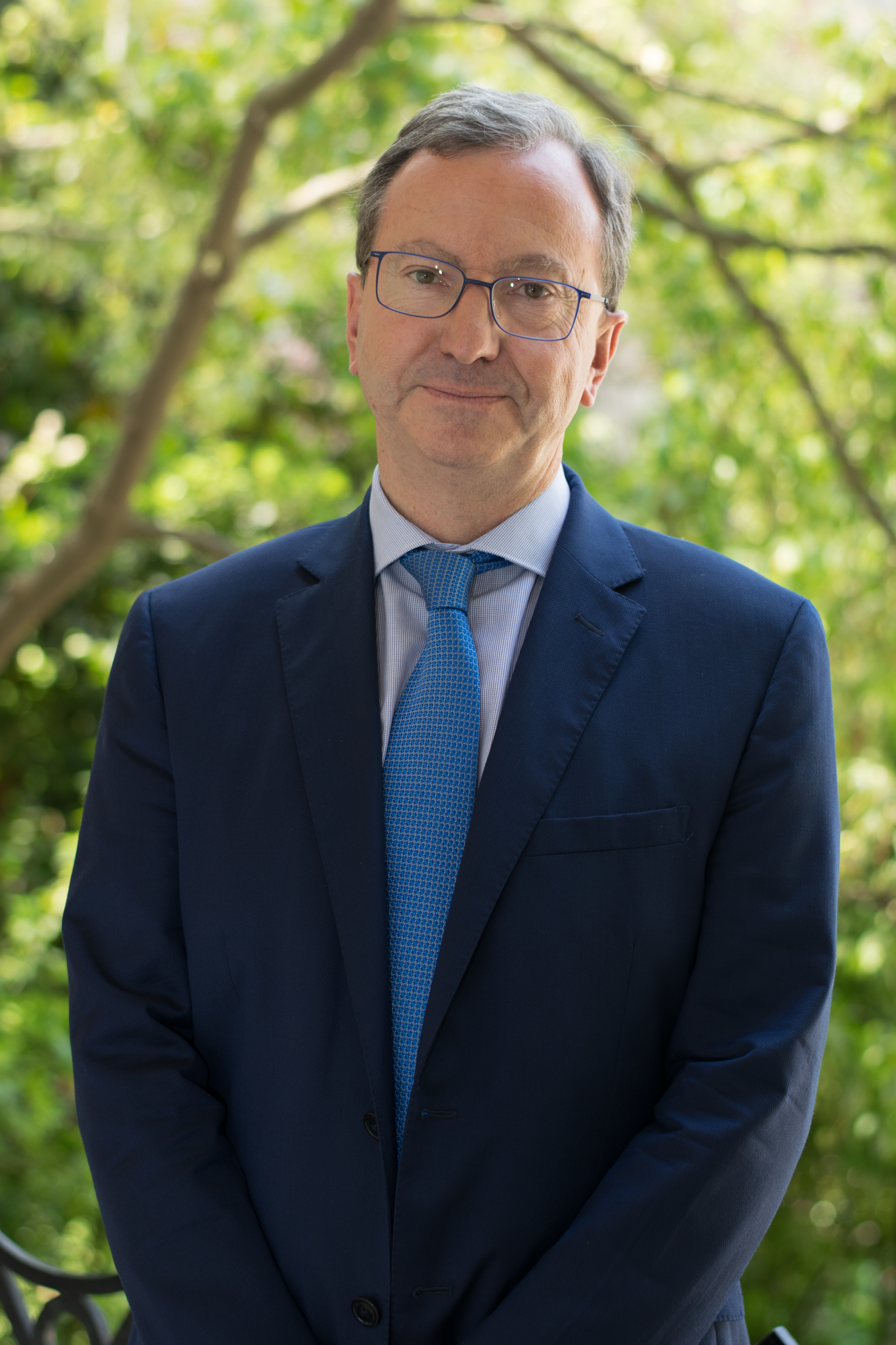 Vincent Bru in the garden of the Quatres Colonnes in the Palais Bourbon (Paris, France).